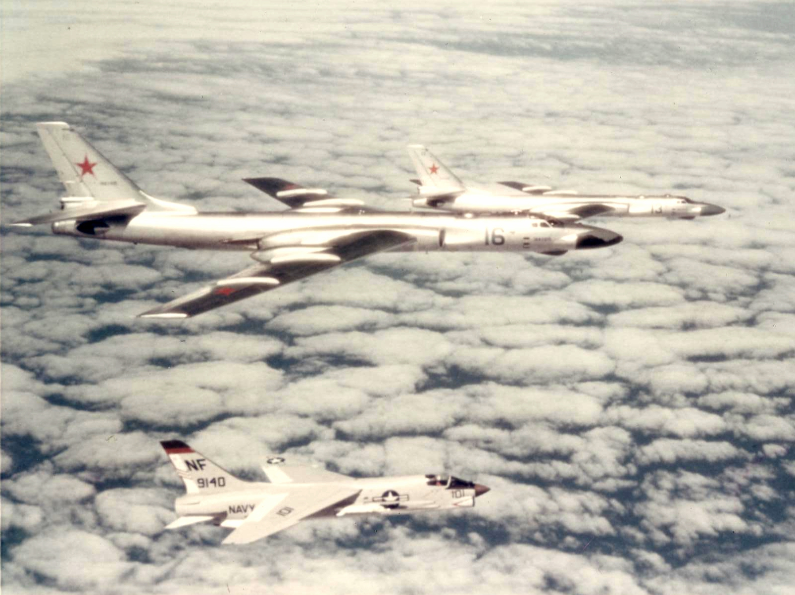 A U.S. Navy Vought F-8E Crusader (BuNo 149140) of Fighter Squadron 51 (VF-51) "Screaming Eagles" escorting two Soviet Tupolev Tu-16 (NATO reporting code "Badger"). VF-51 was assigned to Carrier Air Wing 5 (CVW-5) aboard the aircraft carrier USS Ticonderoga (CVA-14) for a deployment to the Western Pacific from 3 January to 15 July 1963.